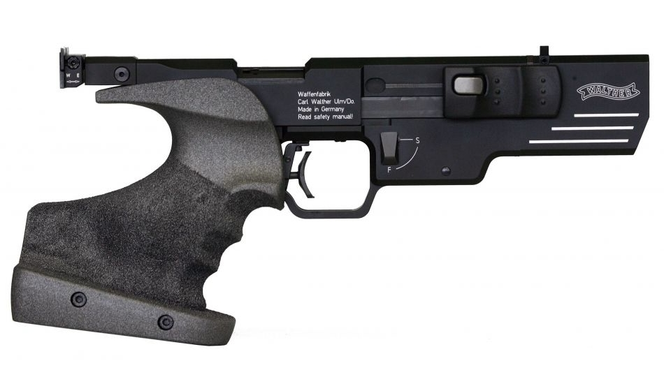 Walther SSP